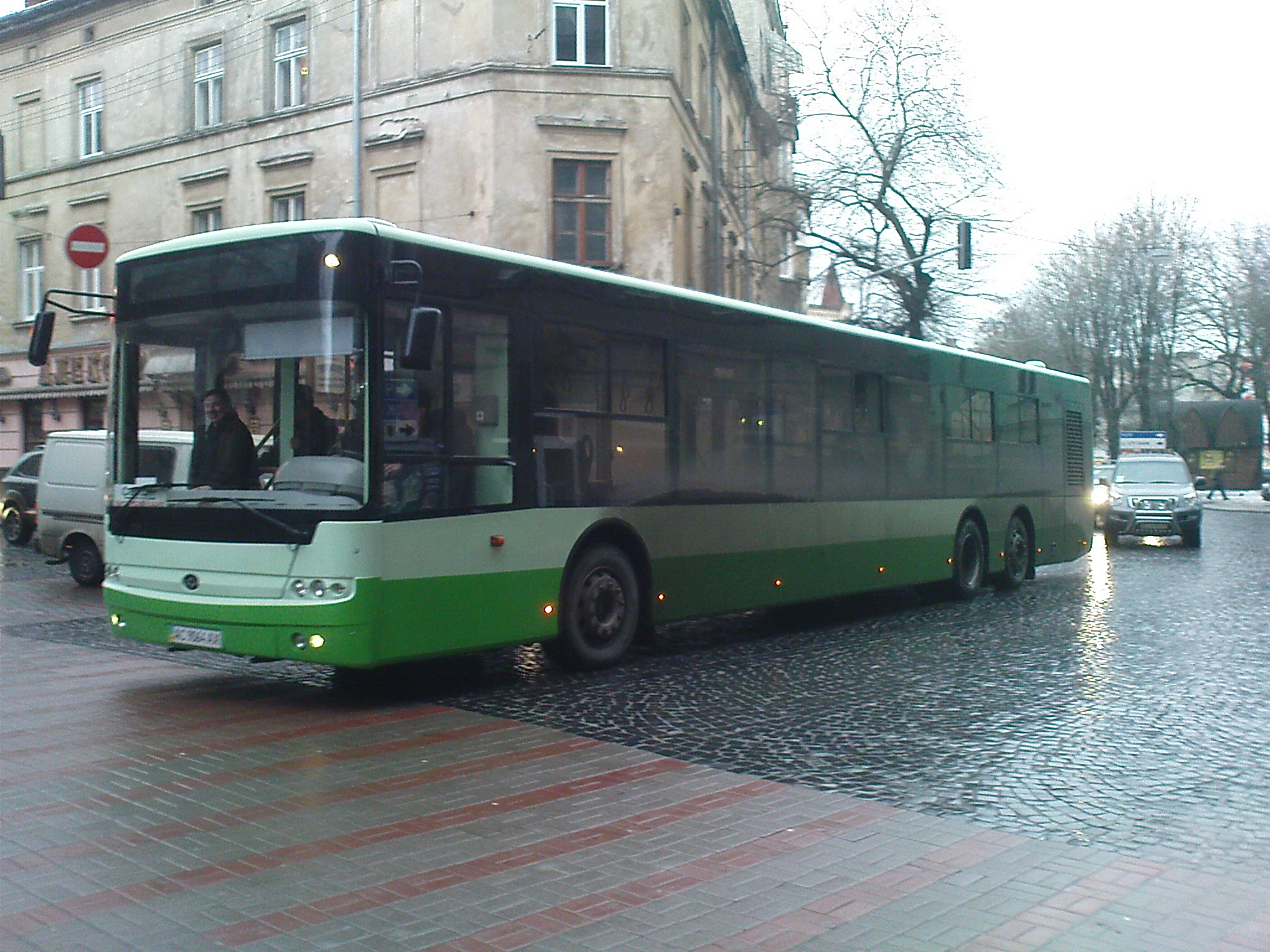 Bogdan А801.10 - a 15m long bus. The bus built in 2010. Exclusive photo. The only model of this bus (by March 2010).